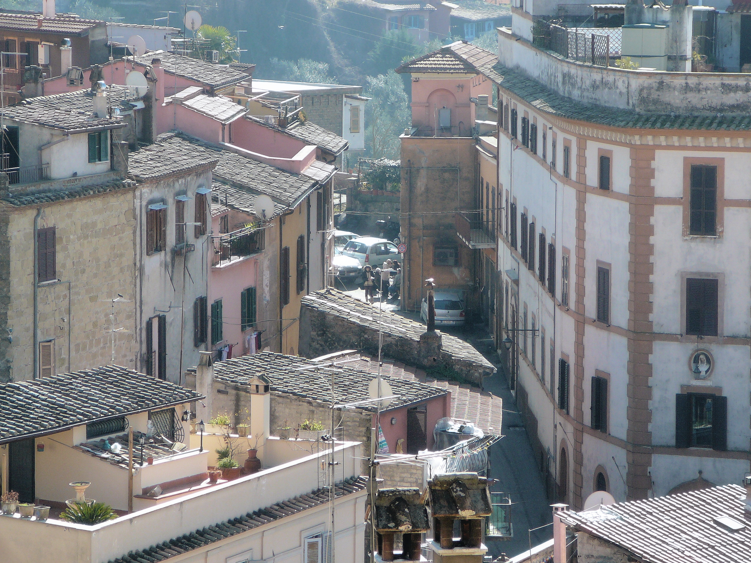 View down Via Fausto Cecconi, towards Via IV Novembre